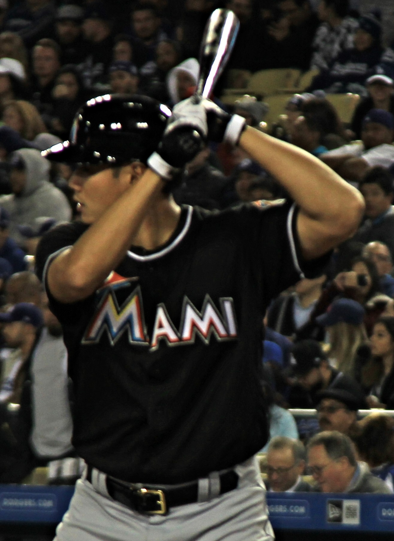 Chen with Miami Marlins in 2016.